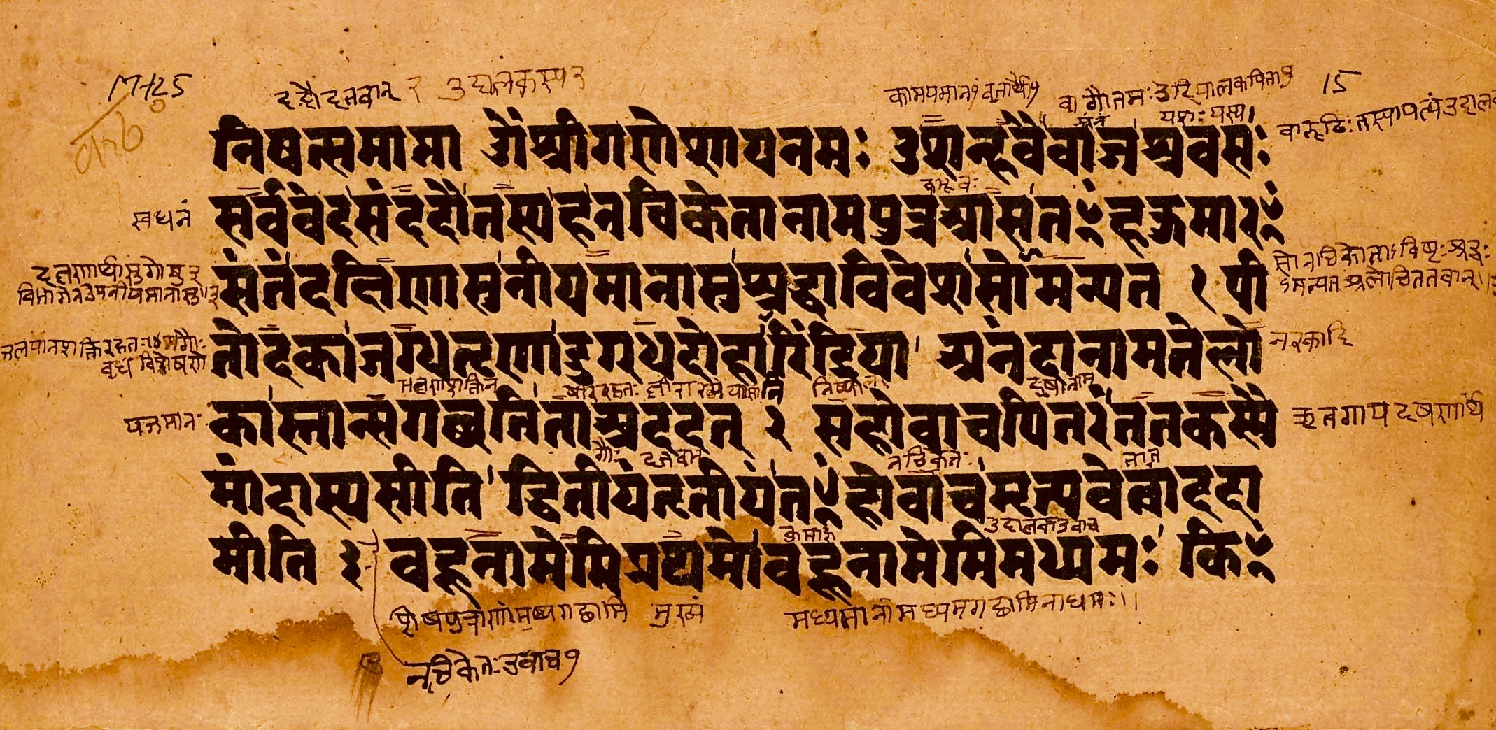 The early Upanishads (Upanisad, Upanisat) are scriptures of Hinduism. Variously dated by scholars to have been composed between 900 BCE to about 200 BCE, these texts are in Sanskrit language and embedded within a layer of the Vedas. They contain a mixture of philosophy and mystical speculations, many set in the form of dialogues or pedagogic style. Their central teachings include the concepts of Atman (soul, self) and Brahman (metaphysical reality). These manuscripts are preserved at the Lalchand Research Library, Ancient Indian Manuscript Collection, DAV College Digital Library Initiative, Chandigarh India, in association with SP Lohia and Indorama Charitable Trust. The texts are over 2000 years old, the re-copying into this particular manuscript is dated to a pre-1867 reproduction (exact date unknown). The manuscript shows significant decay and damage on the sides and its edges. Language: Sanskrit Script: Devanagari Script style: pre-14th century (Northern / Western), the symbol Om is written in early style found in numerous early inscriptions Katha Upanishad, verses 1.1.1–3, partially 4 (the text starts in the mid-1st-line, after salutations to Ganesha) The thick text is the Upanishad scripture, the small text in the margins and edges are an unknown scholar's notes and comments in the typical Hindu style of a minor bhasya. The photo above is of a 2D artwork of a text that is over 2,000 years old, from a manuscript that was produced decades before 1923. Therefore Wikimedia Commons PD-Art licensing guidelines apply. Any rights I have as a photographer is herewith donated to wikimedia commons under CC 4.0 license. कठोपनिषदत् प्रथमोध्यायः प्रथमवल्ली